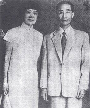 Jiang-Biwei-Chang-Tao-fanJiang Biwei or Tangzhen Jiang aka Zhang Daofan (1899 – 1978) was influential in the lives of the painter Xu Beihong and the politician Chang Tao-fan. Image created before 1965 as he died in 1968 and for the last ten years of his life they could not see each other (note 50 years is copyright for China)